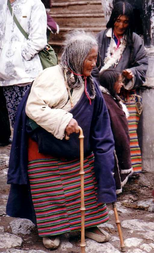 I took this photo myself in 1993. John Hill 04:53, 28 January 2007 (UTC)